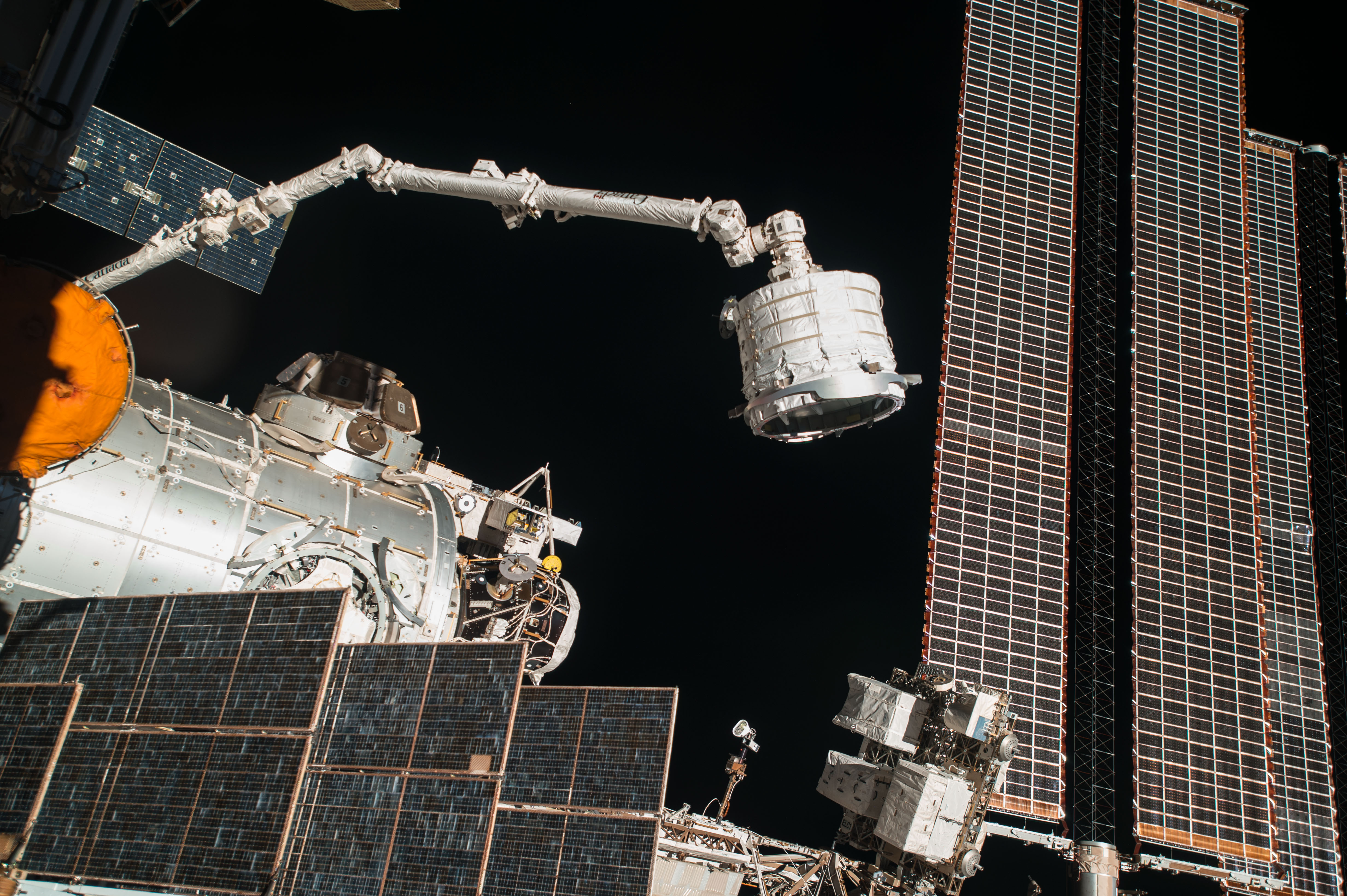 The Bigelow Expandable Activity Module (BEAM) was installed to the International Space Station on April 16, 2016 at 5:36 a.m. EDT. Following extraction from SpaceX's Dragon cargo craft using the Canadarm2 robotic arm, ground controllers installed the expandable module to the aft port of Tranquility. Astronauts will enter BEAM on an occasional basis to conduct tests to validate the module’s overall performance and the capability of expandable habitats. NASA is investigating concepts for habitats that can keep astronauts healthy during space exploration. Expandable habitats are one such concept under consideration – they require less payload volume on the rocket than traditional rigid structures, and expand after being deployed in space to provide additional room for astronauts to live and work inside.